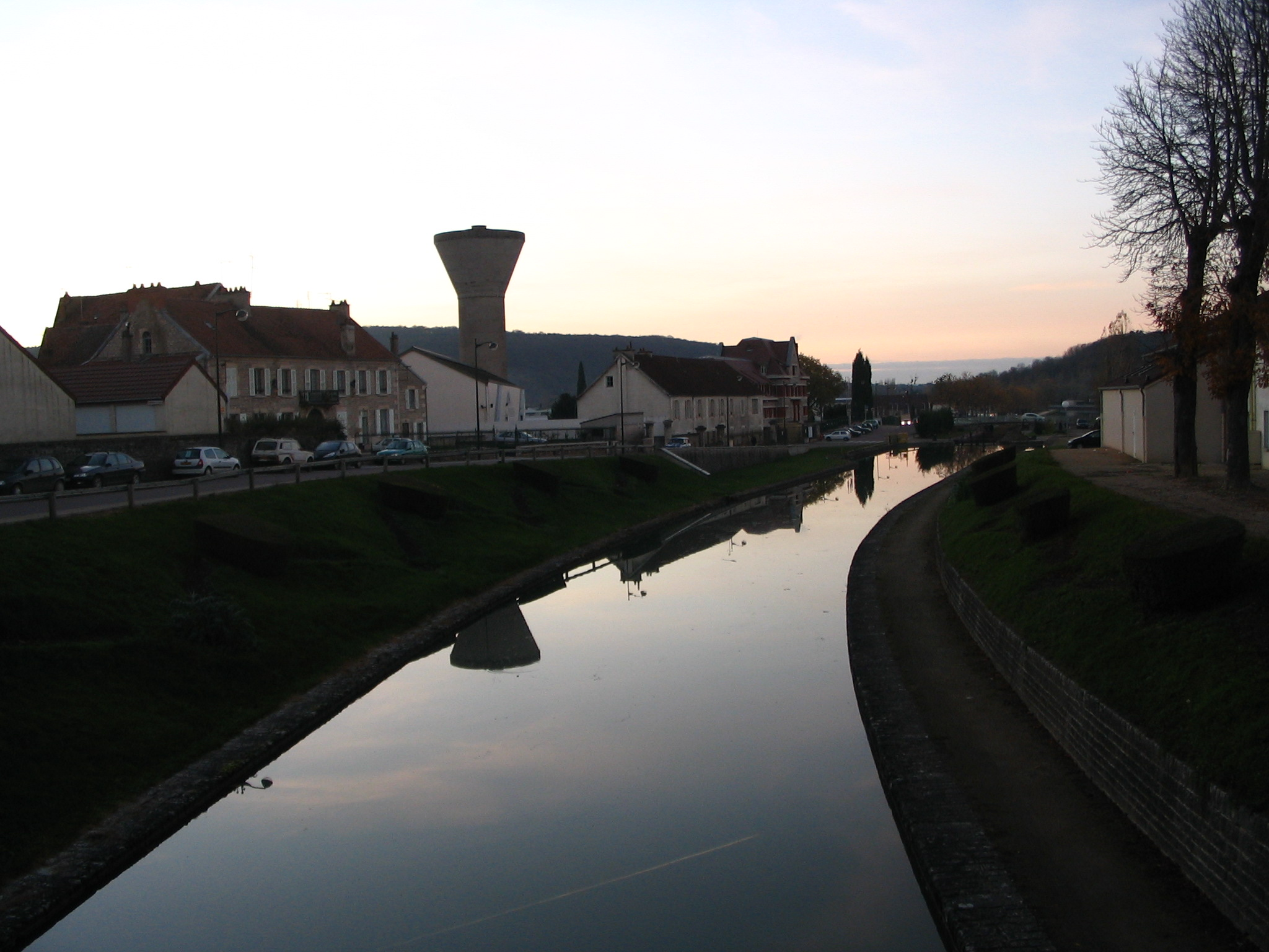 The Canal of Burgundy in Montbard, Côte-d'Or, France.